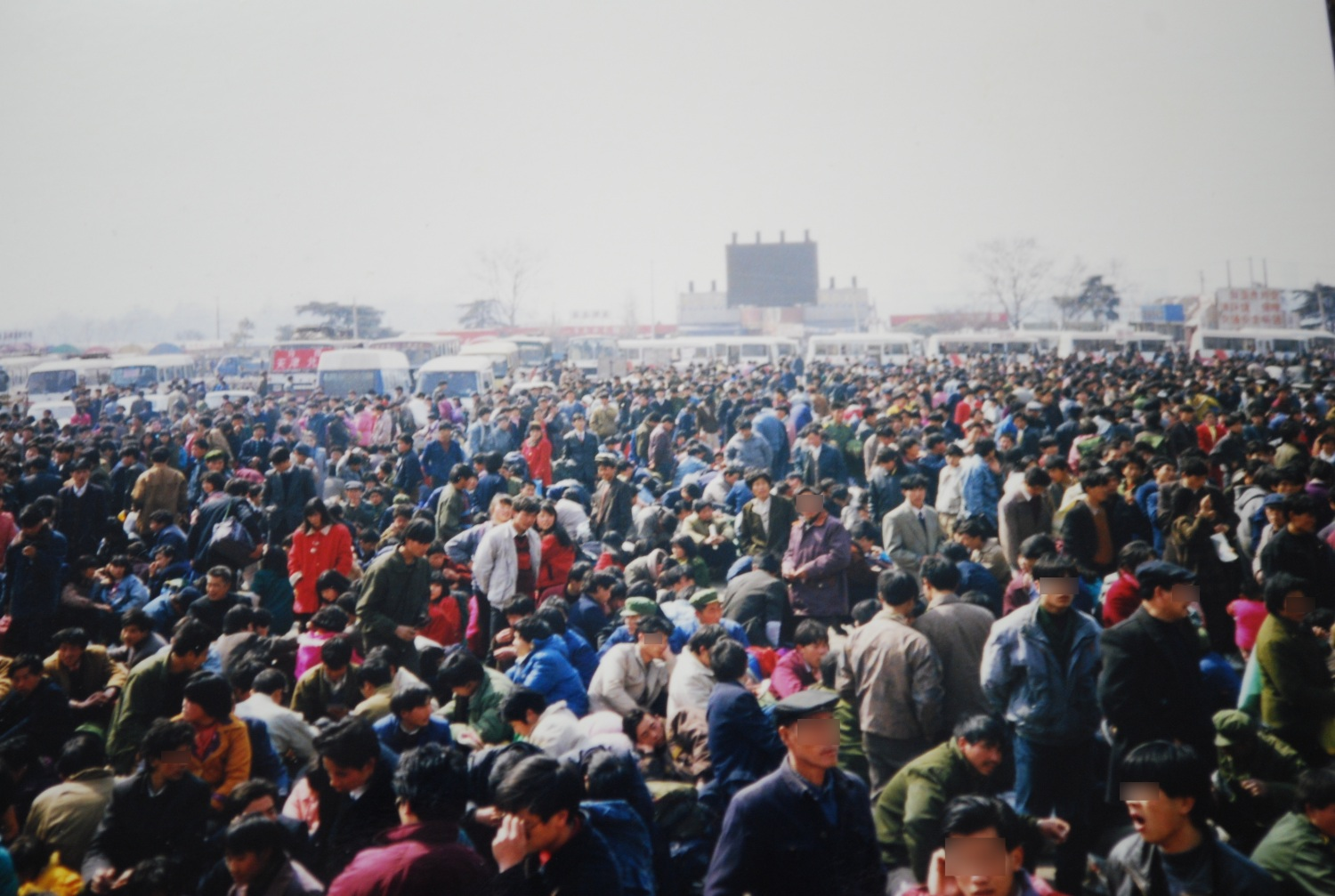 Nanjing station square,Nanjing,China